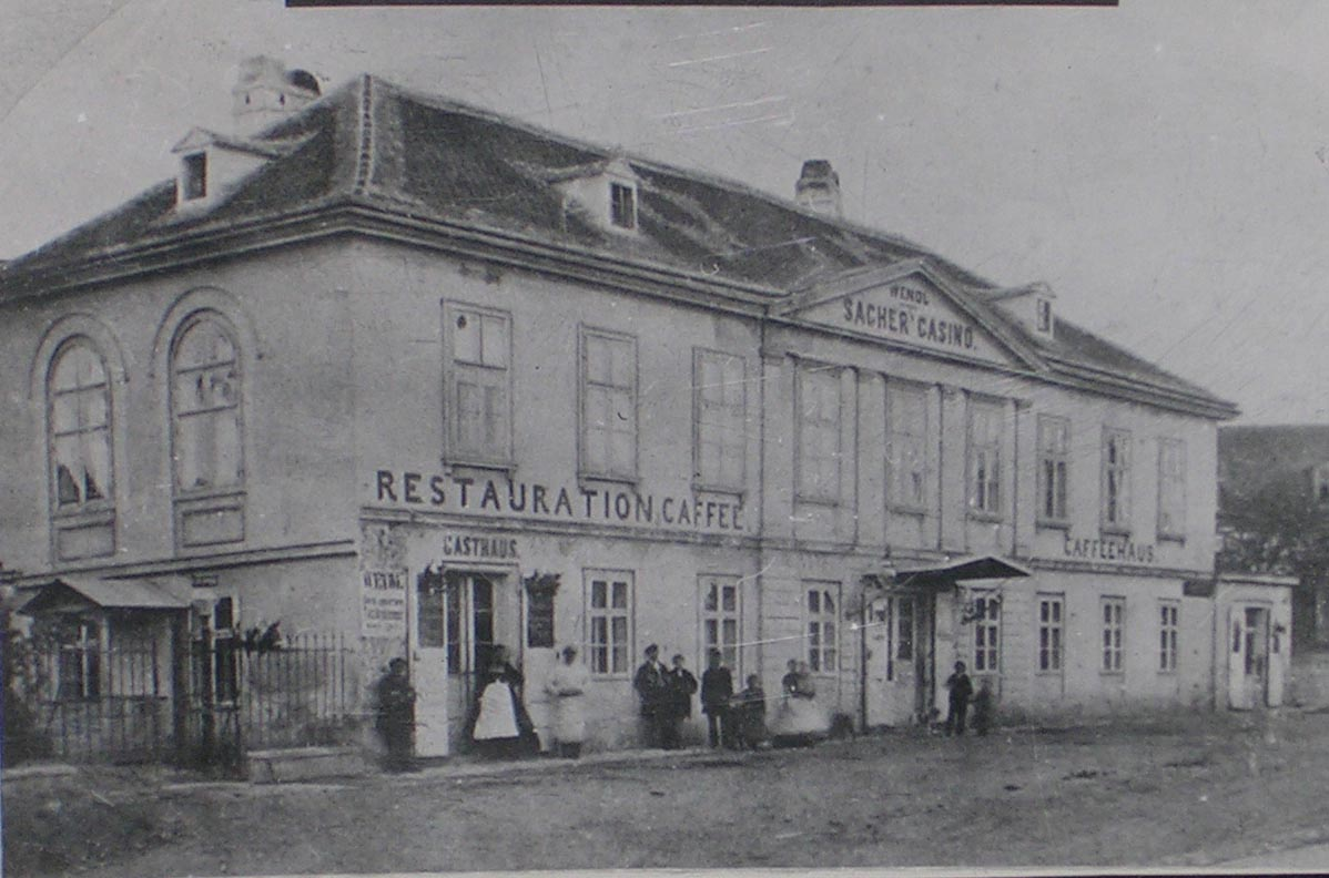 Wendls Casino, destroyed 1880 in Döbling (Döbling)